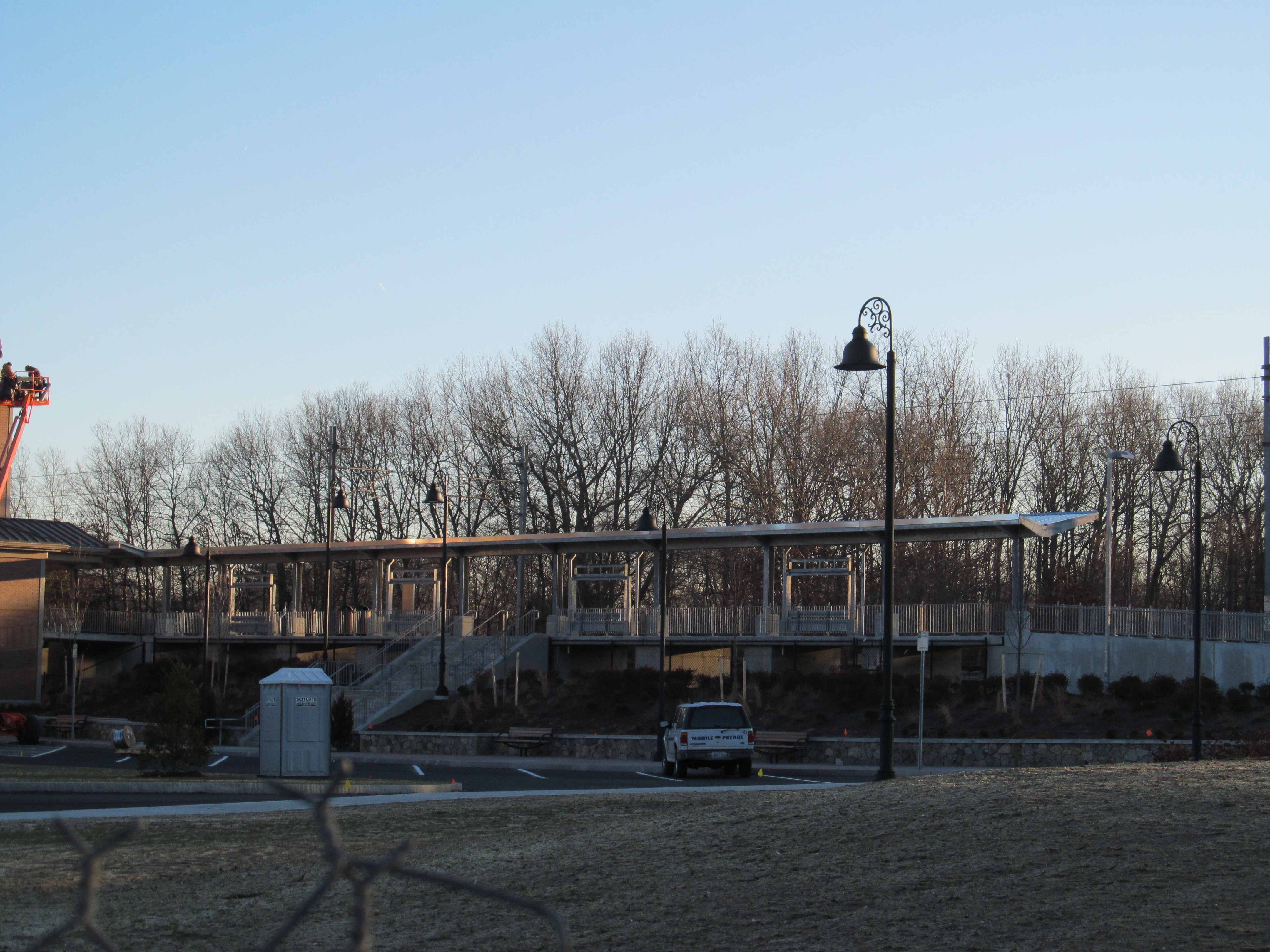 Platform at Wickford Junction under construction in January 2012